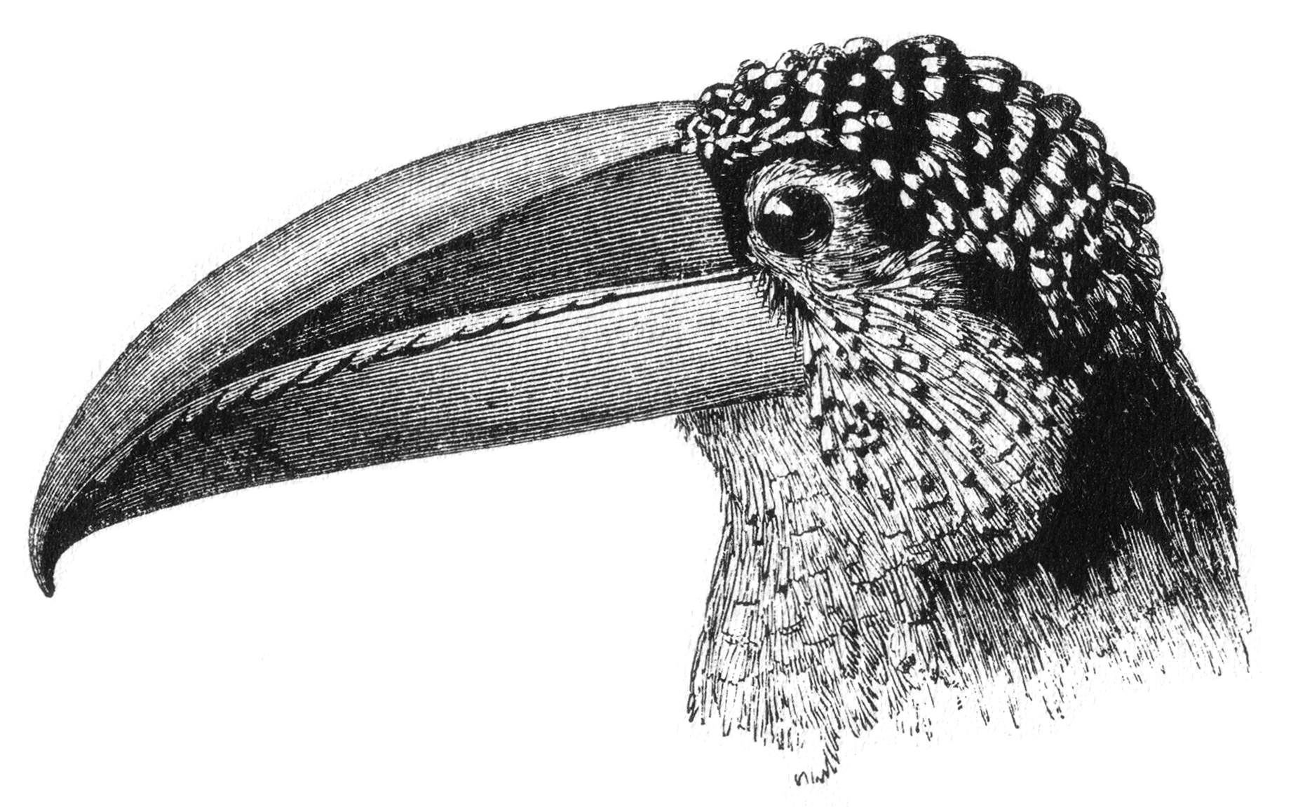 Caption: "Curl-crested Toucan." The previous image, Image:Naturalist on the River Amazons figure 31.png, shows Bates and toucans in the forest.